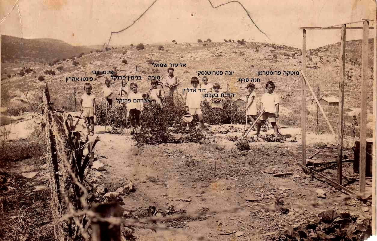 First Pupils Class in Nesher – Class 1929